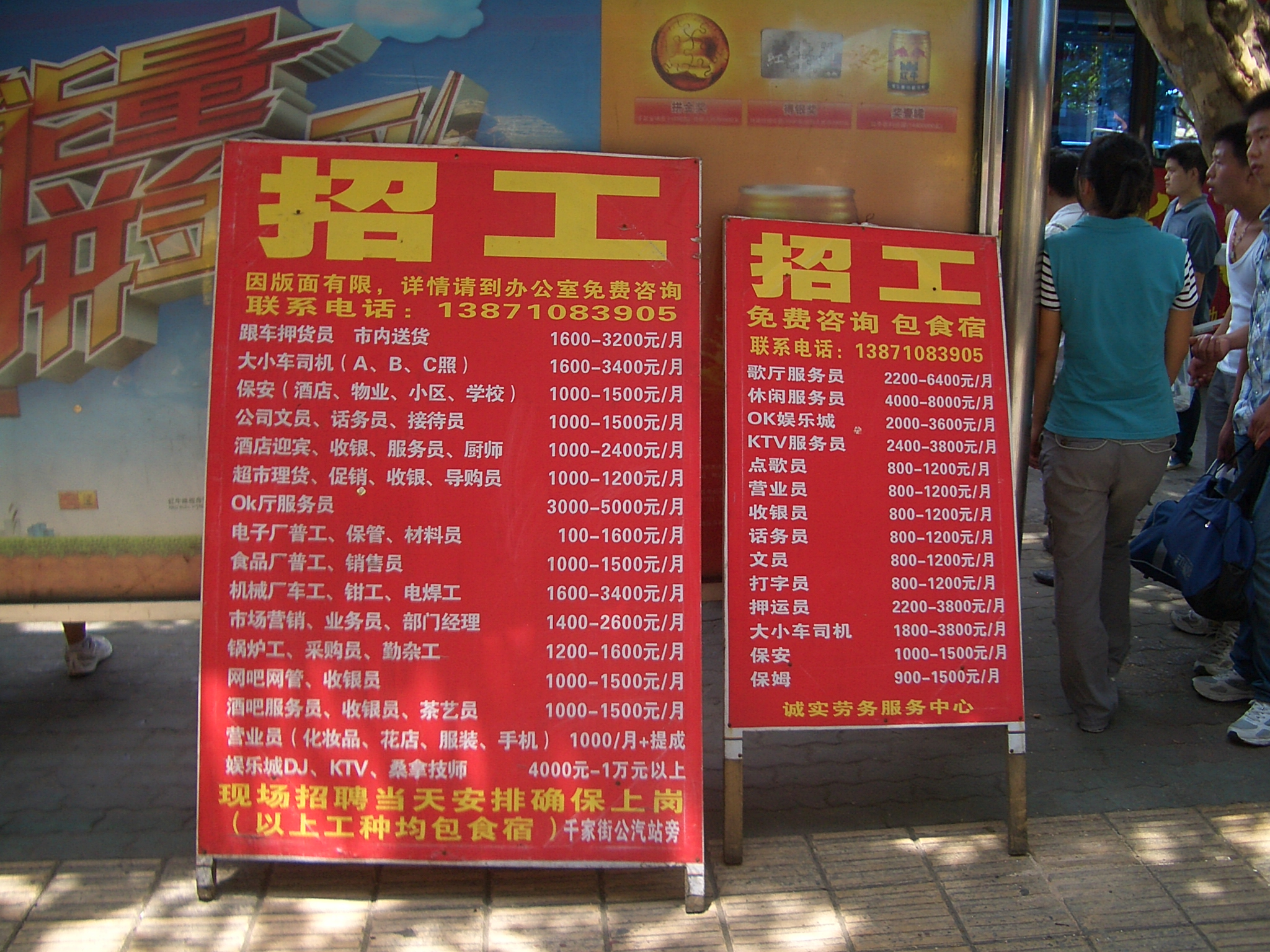 "Help wanted" signs on sidewalk in Zhongshan Lu in Wuhan, a few blocks north of Wuchang Train Station. Wages from 800 yuan a month and up are promised; e.g., drivers are offered wages in teh range CNY 1600-3400/mo